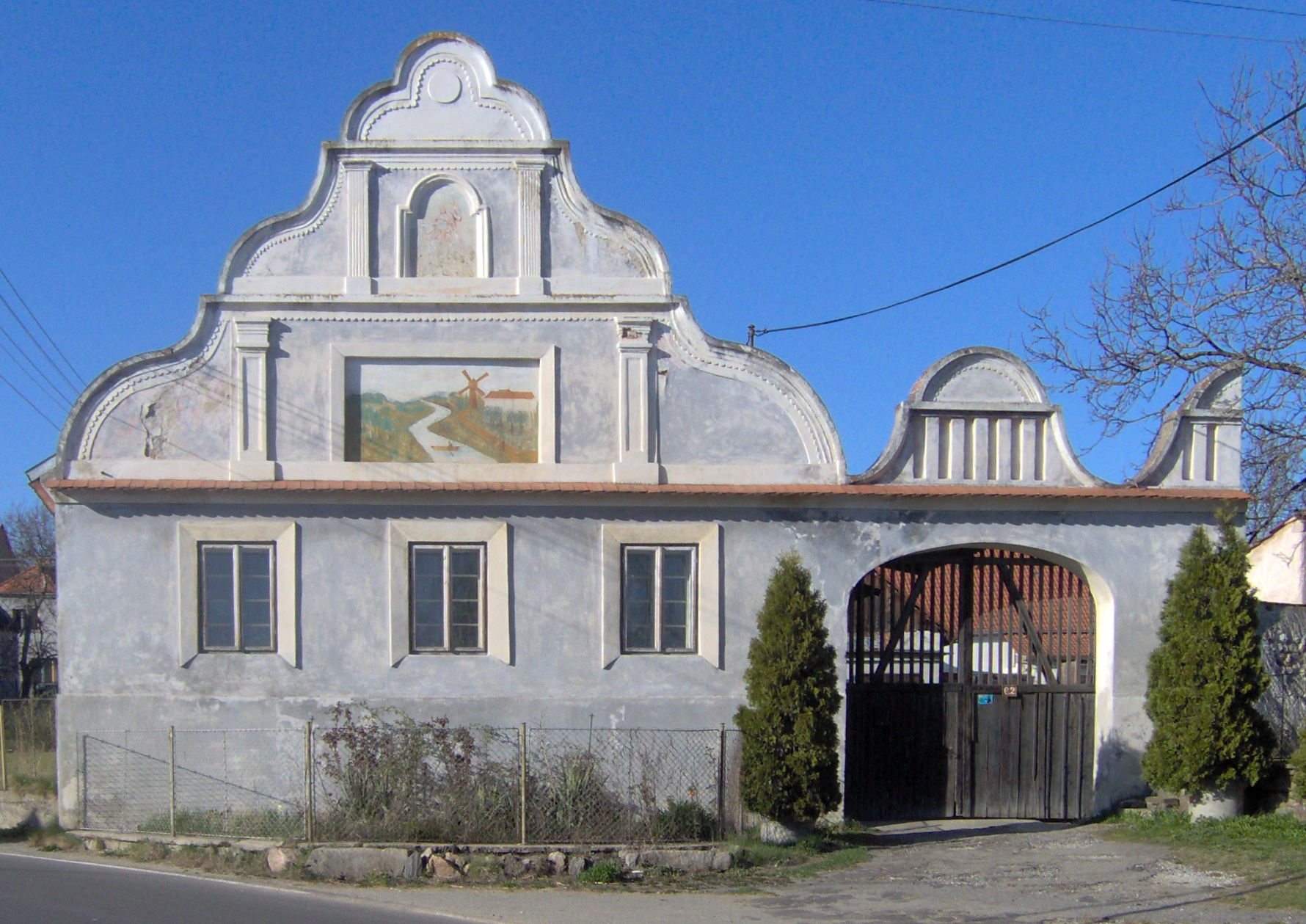 Litochovice, Strakonice District, Czech Republic